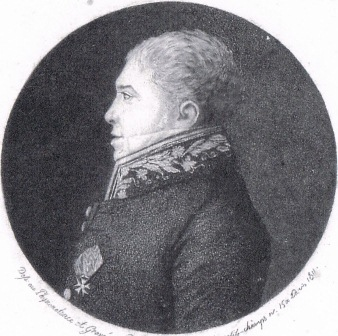 1811 ENgraving of Jean Louis Antoine Alexandre Chastelain de Verly, 1st chévalier Chastelain-Deverly et d´Empire Français (1761-1837)